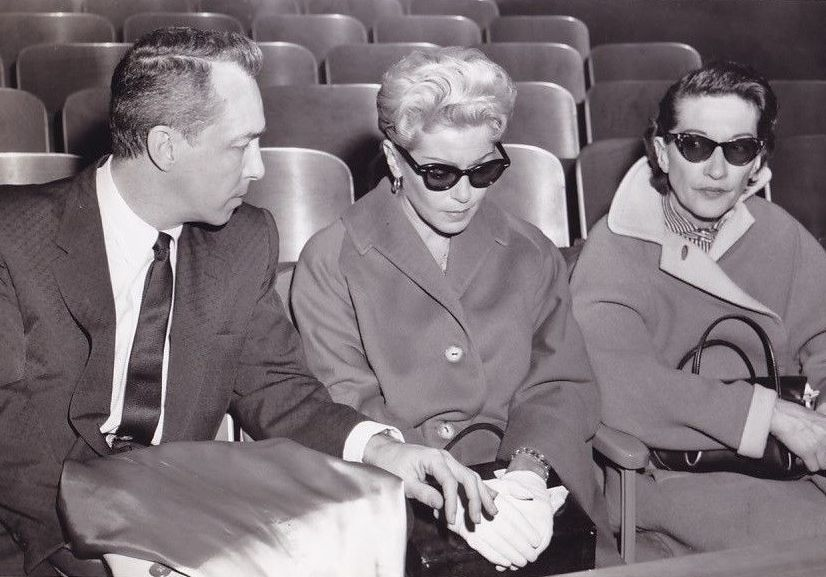 Stephen Crane, Lana Turner, and Mildred Turner at juvenile court hearing for daughter Cheryl Crane after killing of Johnny Stompanato.